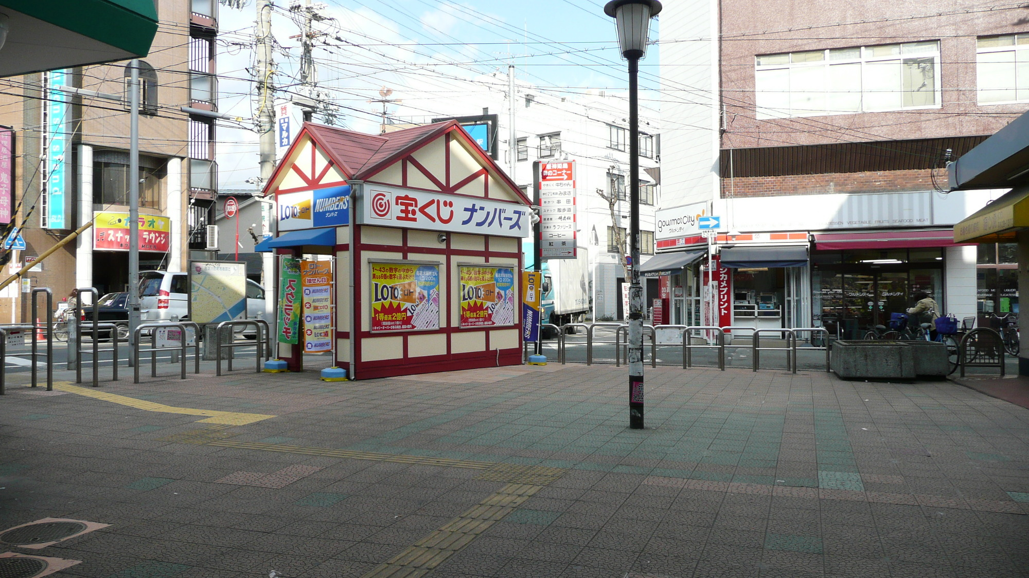 Hanshin Electric Railway,Main Line,Himejima Station north plaza. /阪神本線姫島駅北側駅前風景